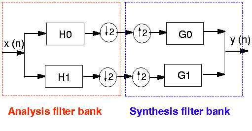 Wavelet packet filter bank